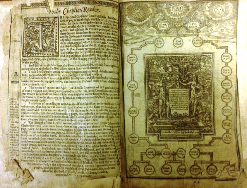 Only second to the 1611 folio King Jame Bible